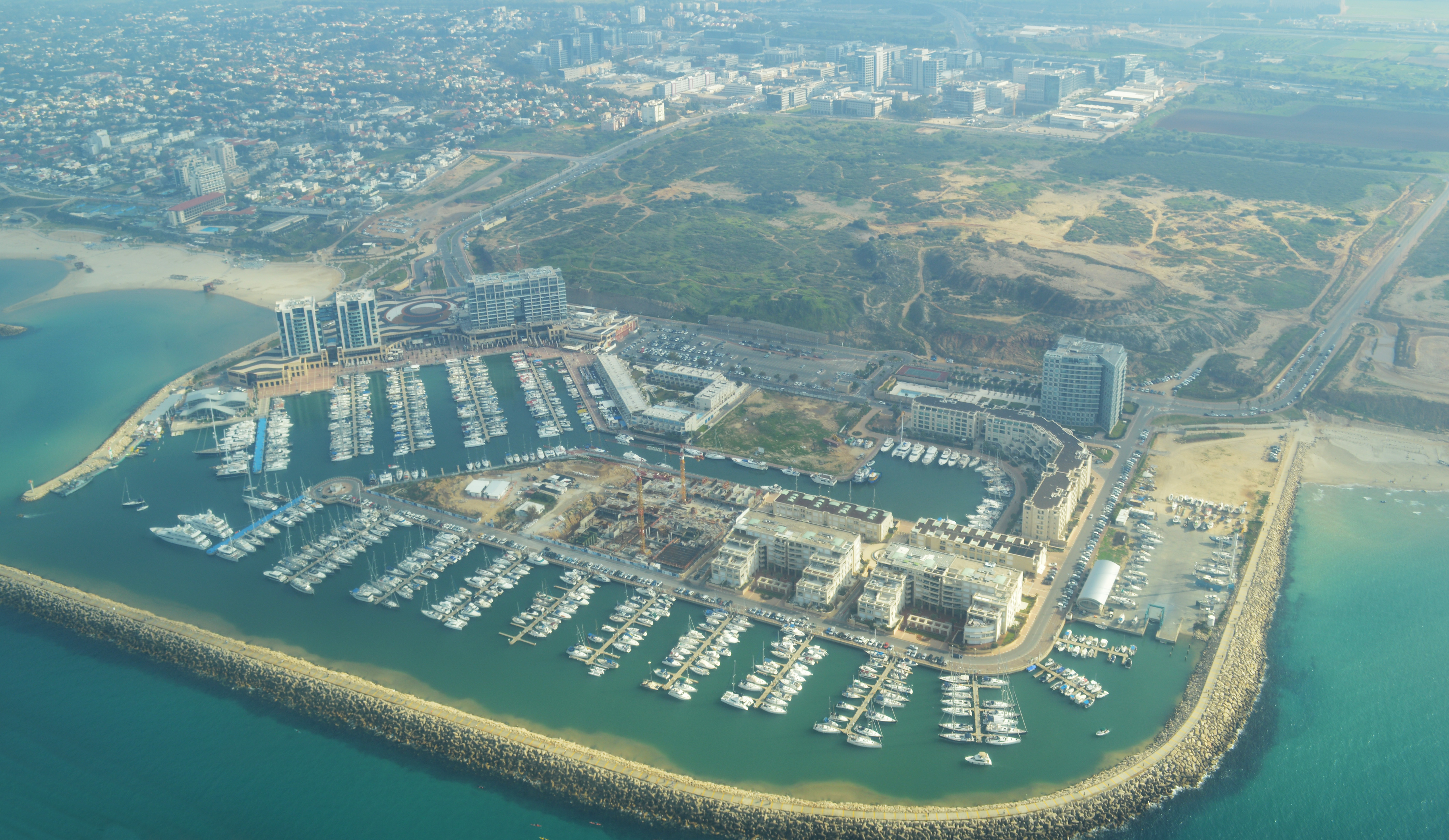 Herzliya Marina Aerial View